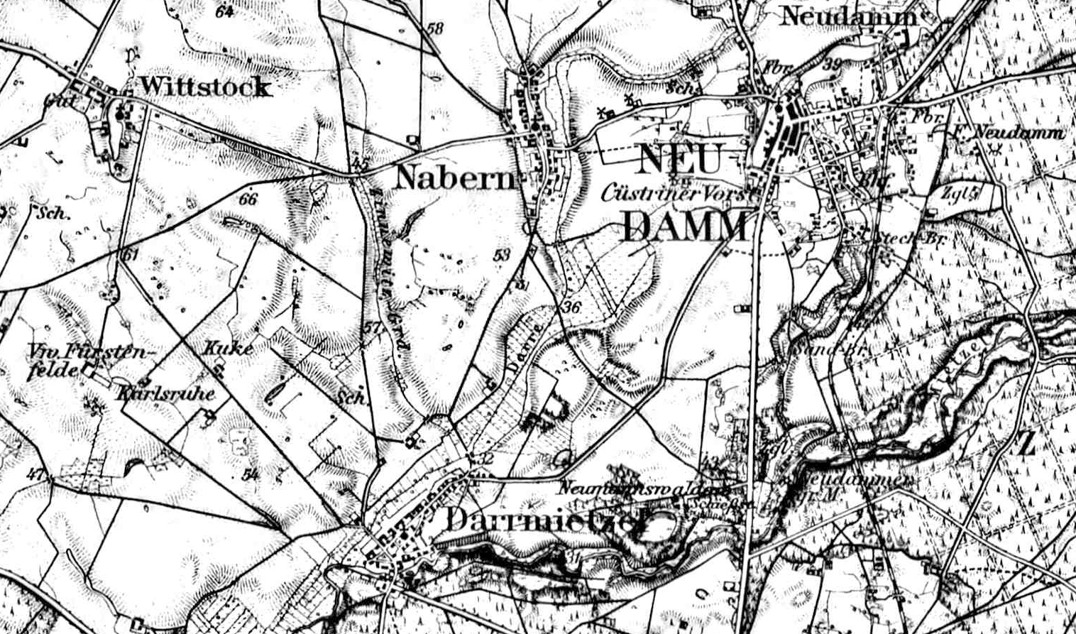 Map of Oborzany (Nabern) neighbourhood, year 1895